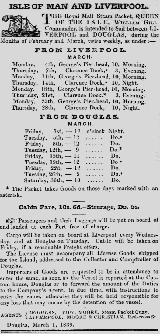 Advertisement for passage between the Isle of Man and Liverpool